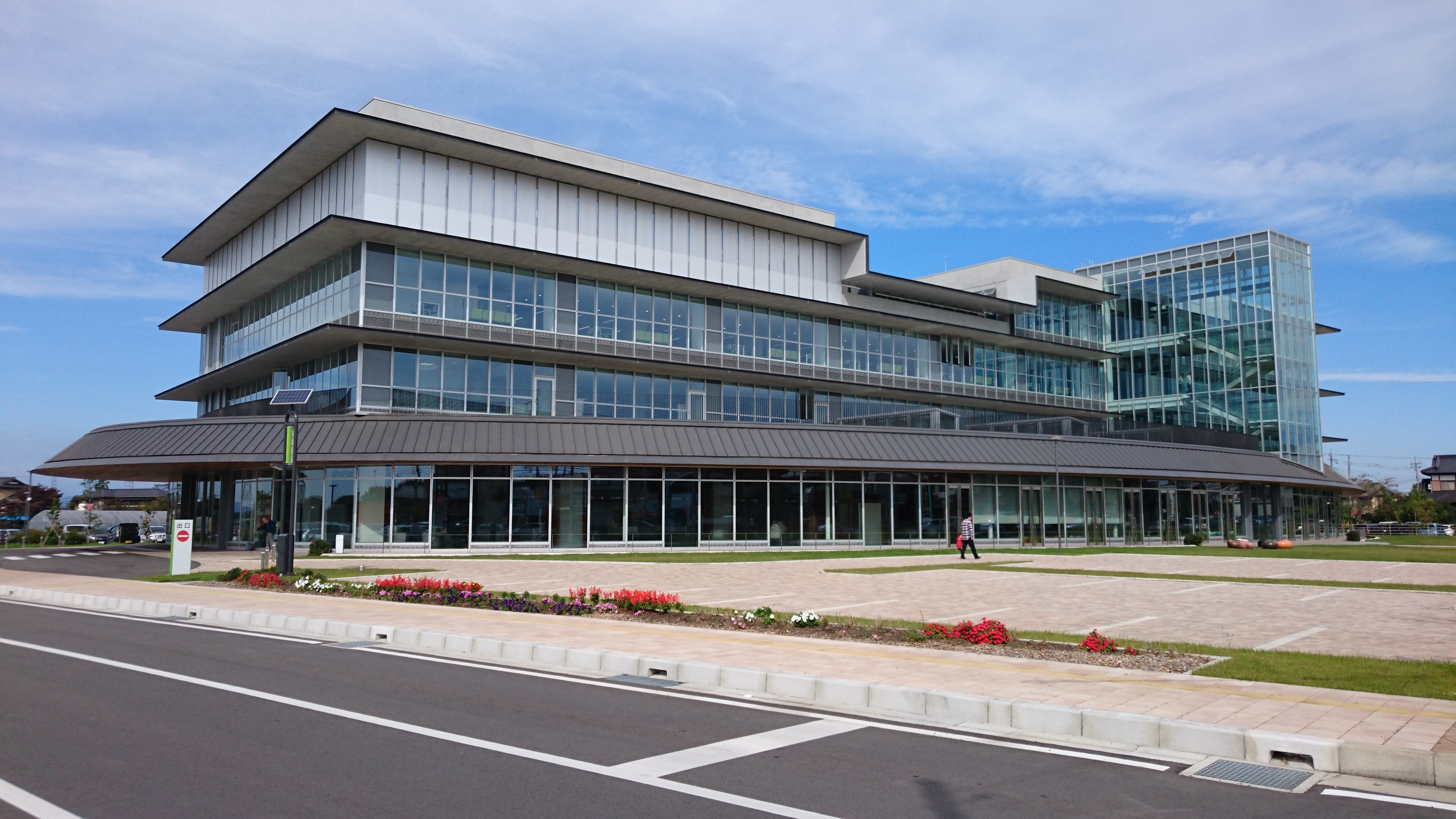 Shimotsuke City Office